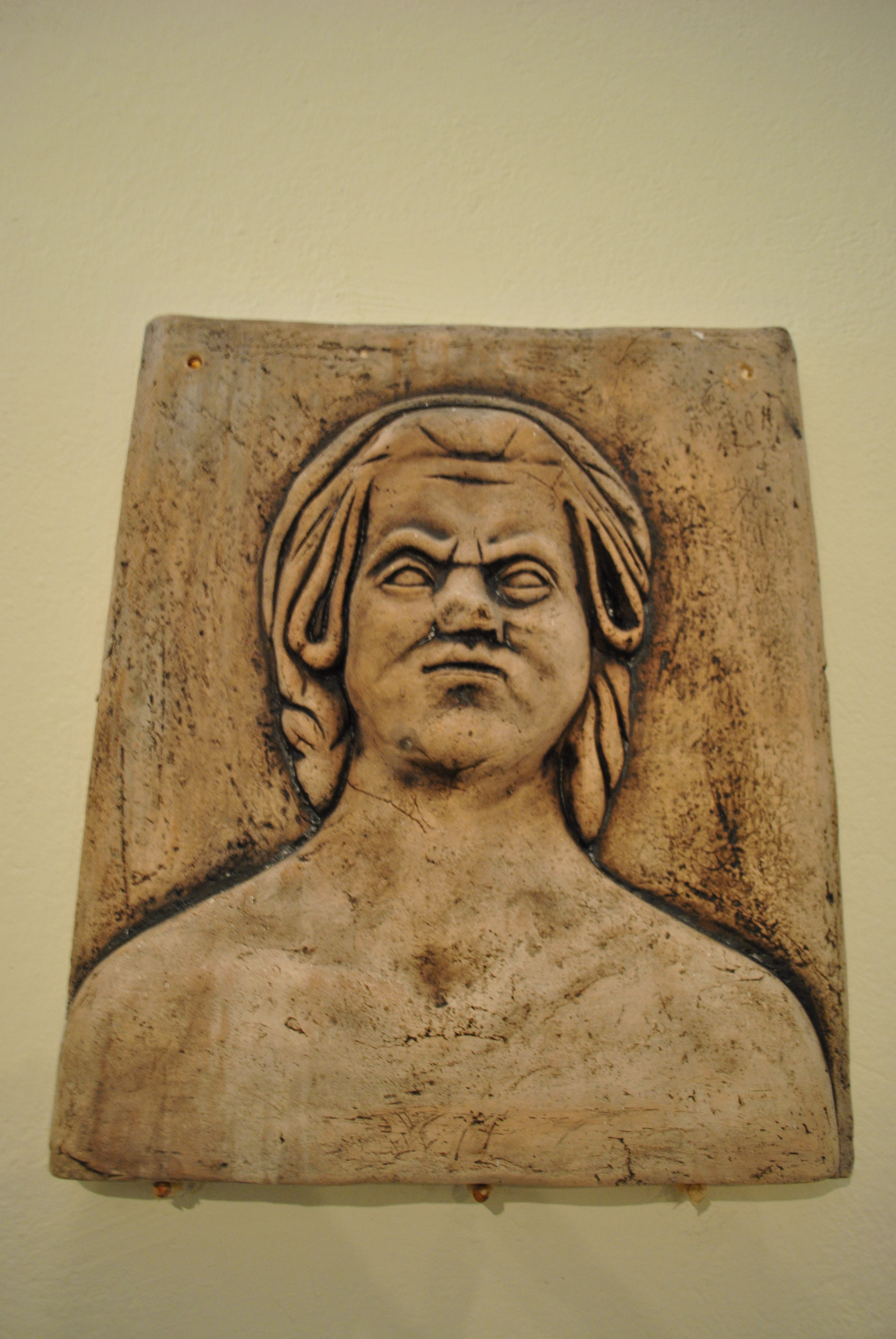 Gordion Museum, Ankara, Turkey